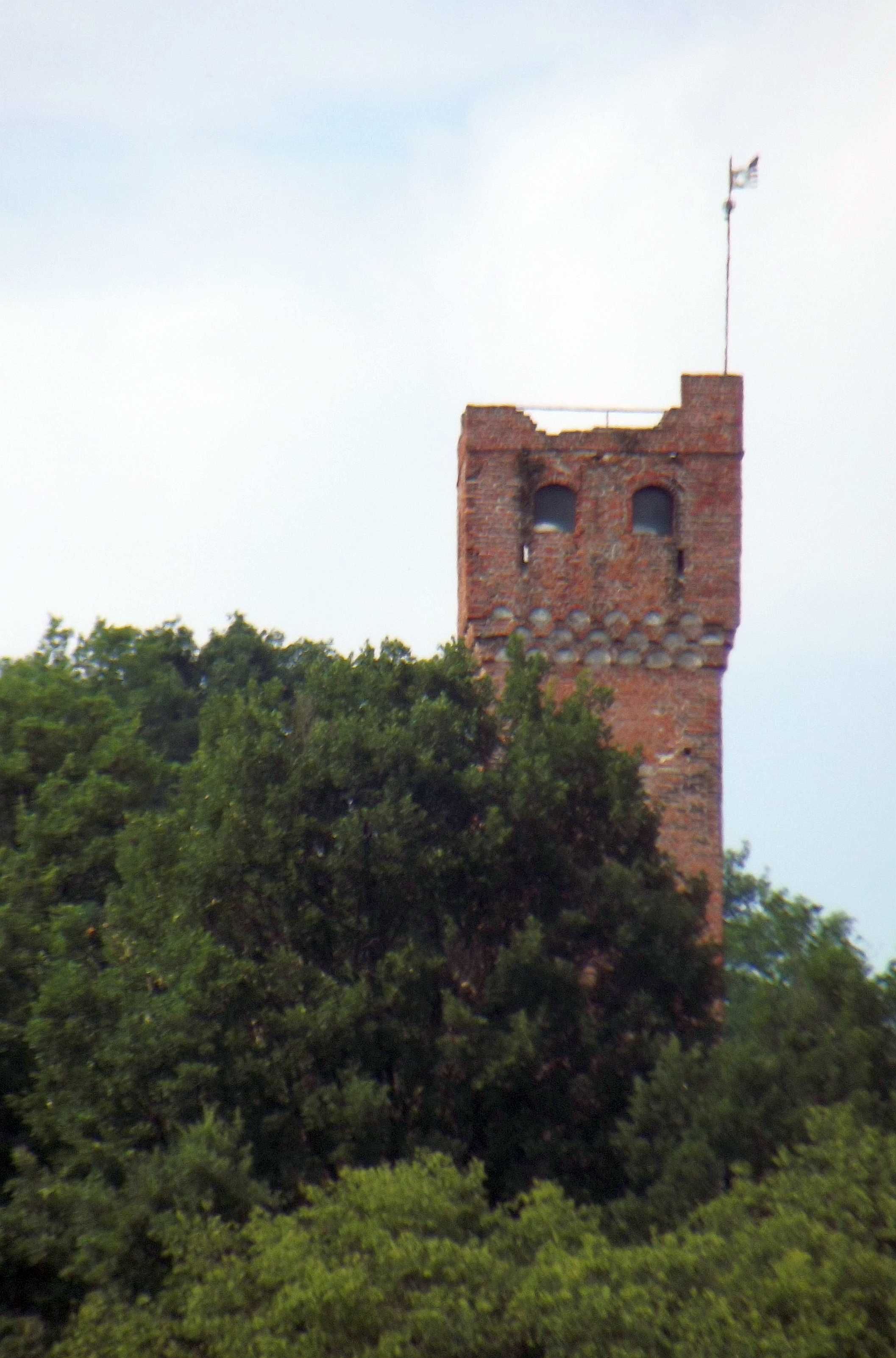 Candia Canavese (TO, Italy): torre di Castiglione